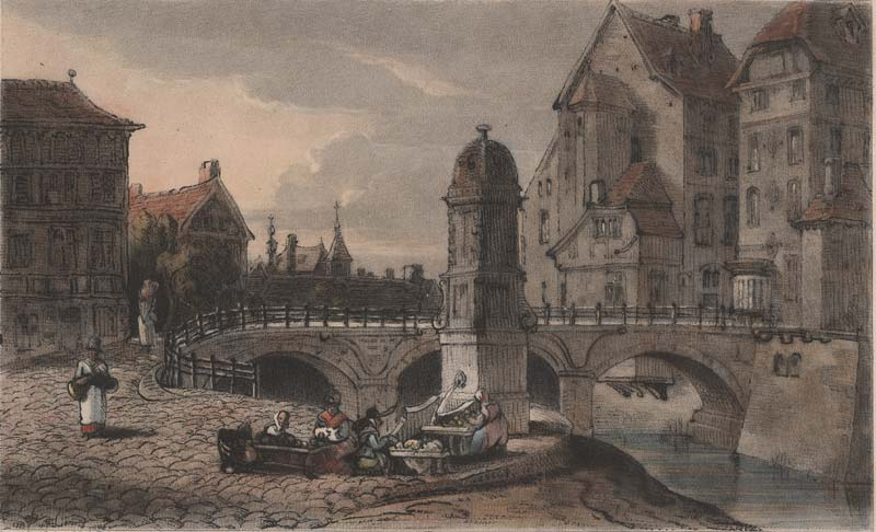 Samuel William Reynolds, George Arnald